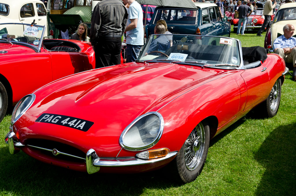 Hebden Bridge Vintage Weekend 05/08/2012